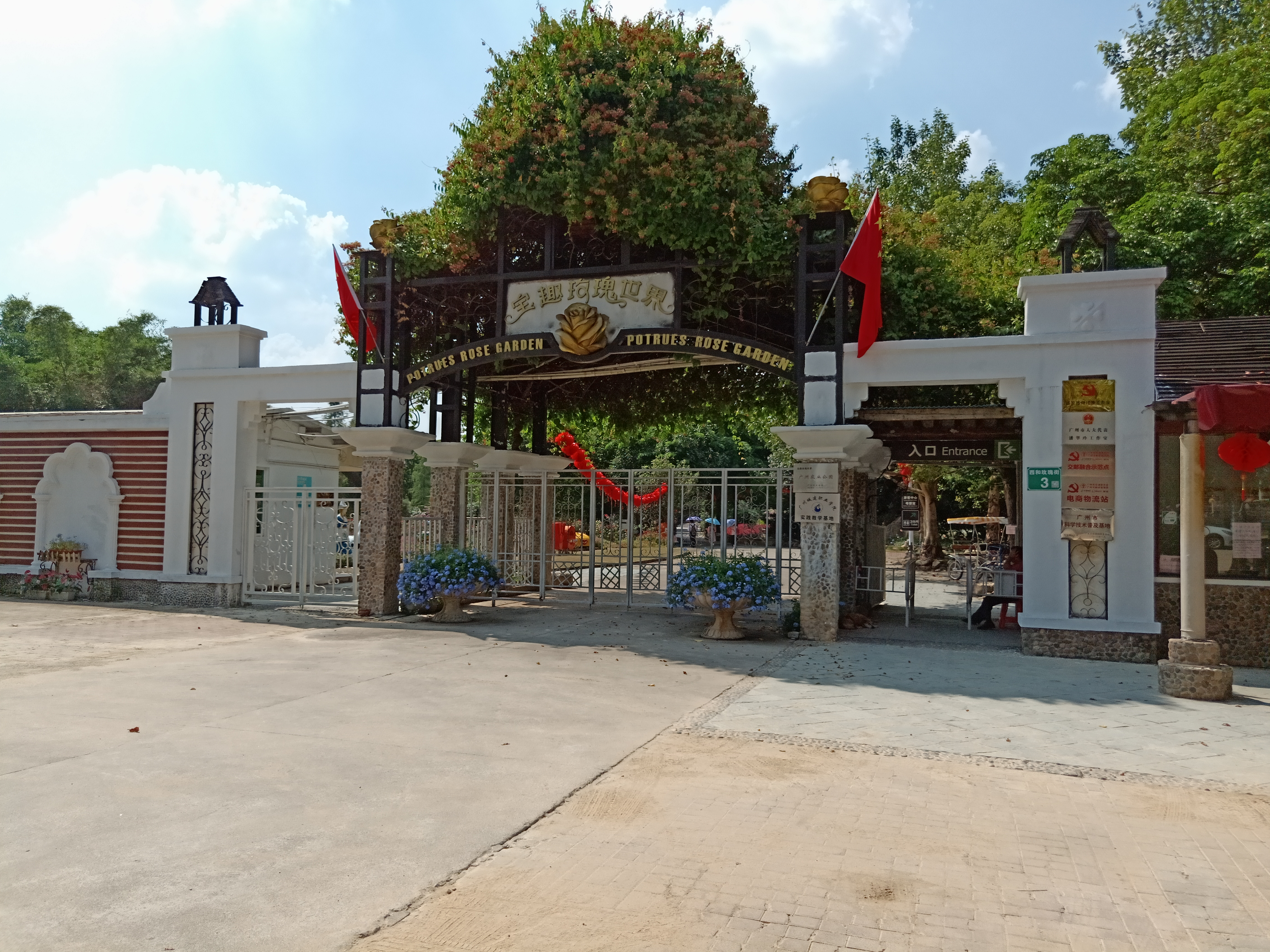 POTRUES ROSE GARDEN